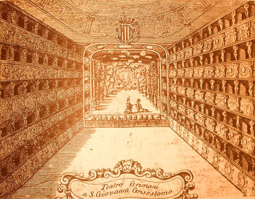 Teatro San Giovanni Grisostomo, Venice Interieur during an opera performance engraving by Vincenczo Maria Coronelli original title Venezia festeggiante (1709)